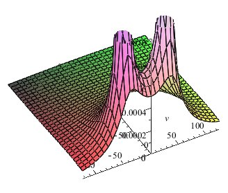 System function (magnitude) of a damped mass spring system